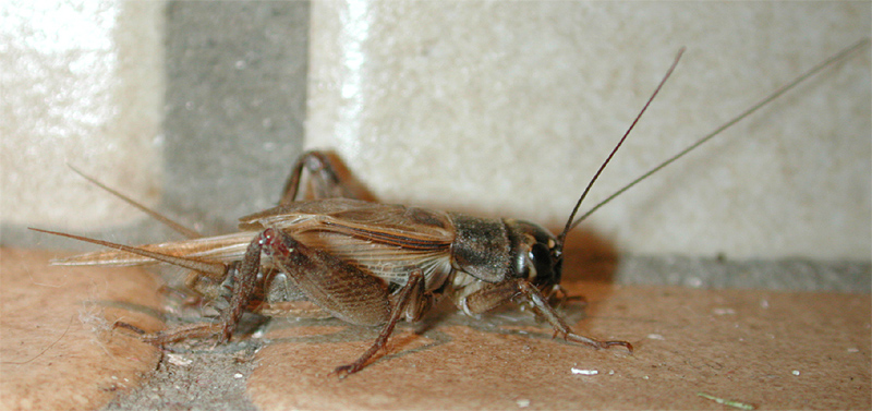 Acheta domesticus, male, House Cricket, Heimchen